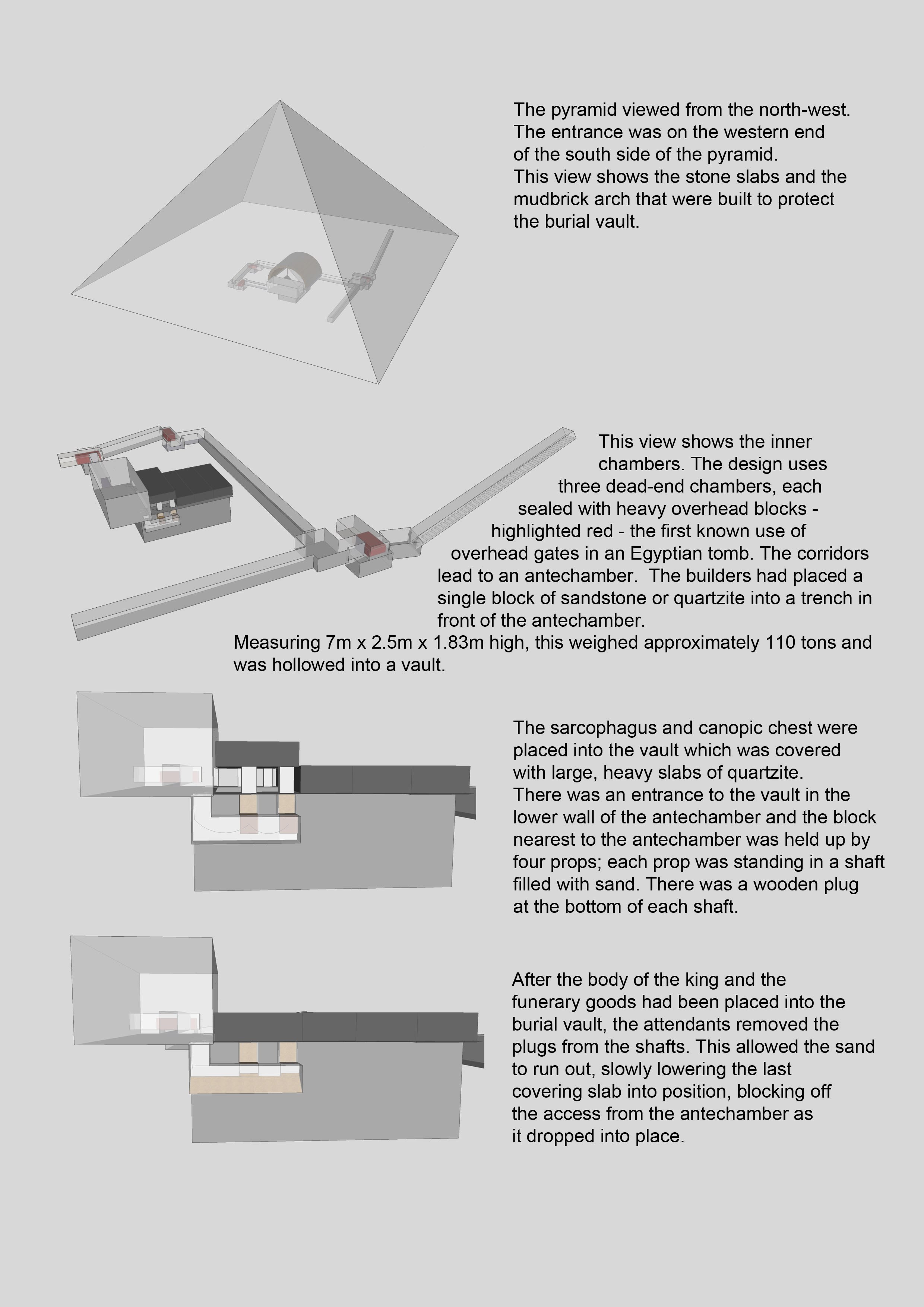 Images of the pyramid of Amenemhat III at Hawara taken from a 3d model